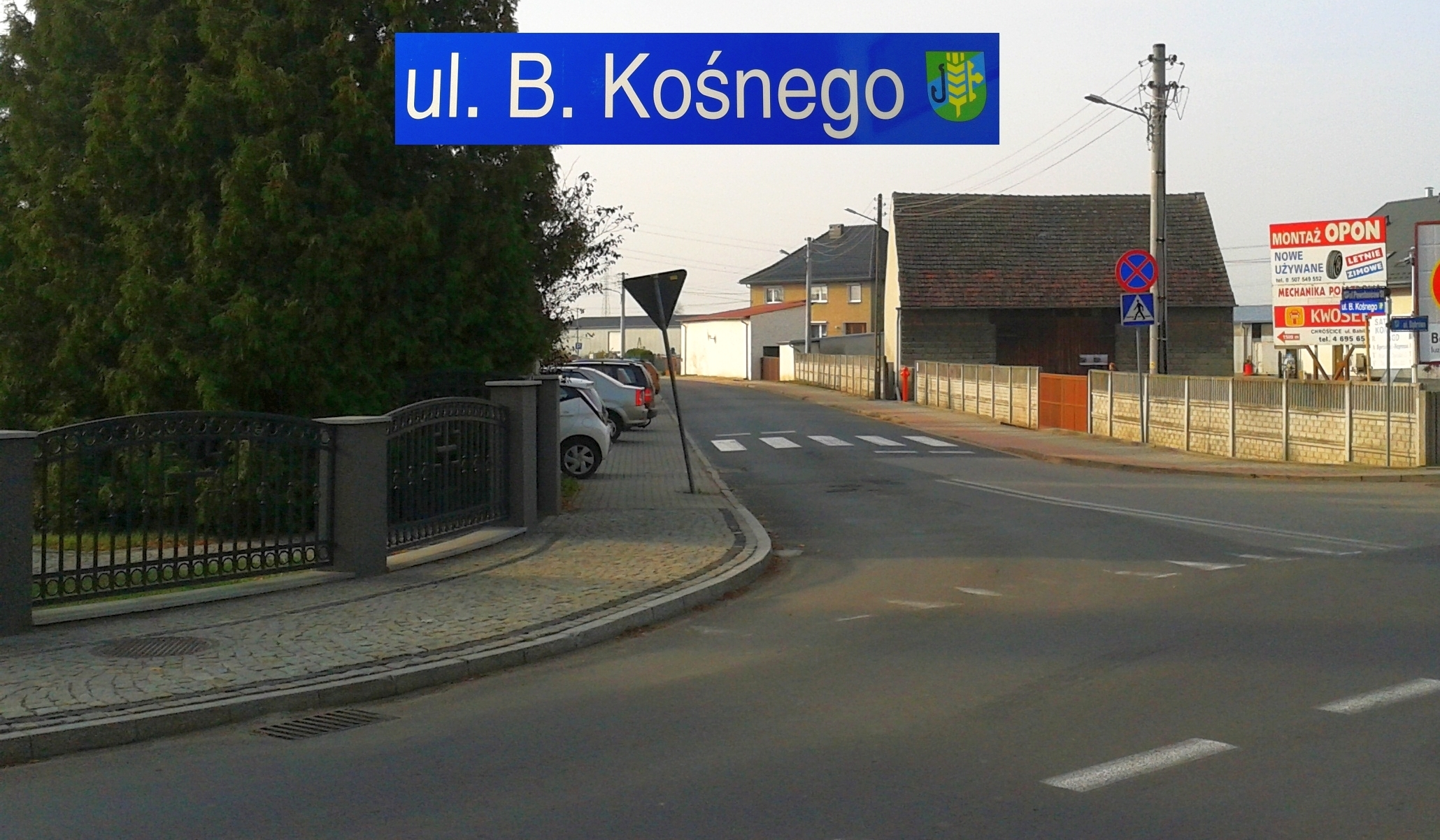 Bolesław Kośny street in Chrościce, Opole County, Poland